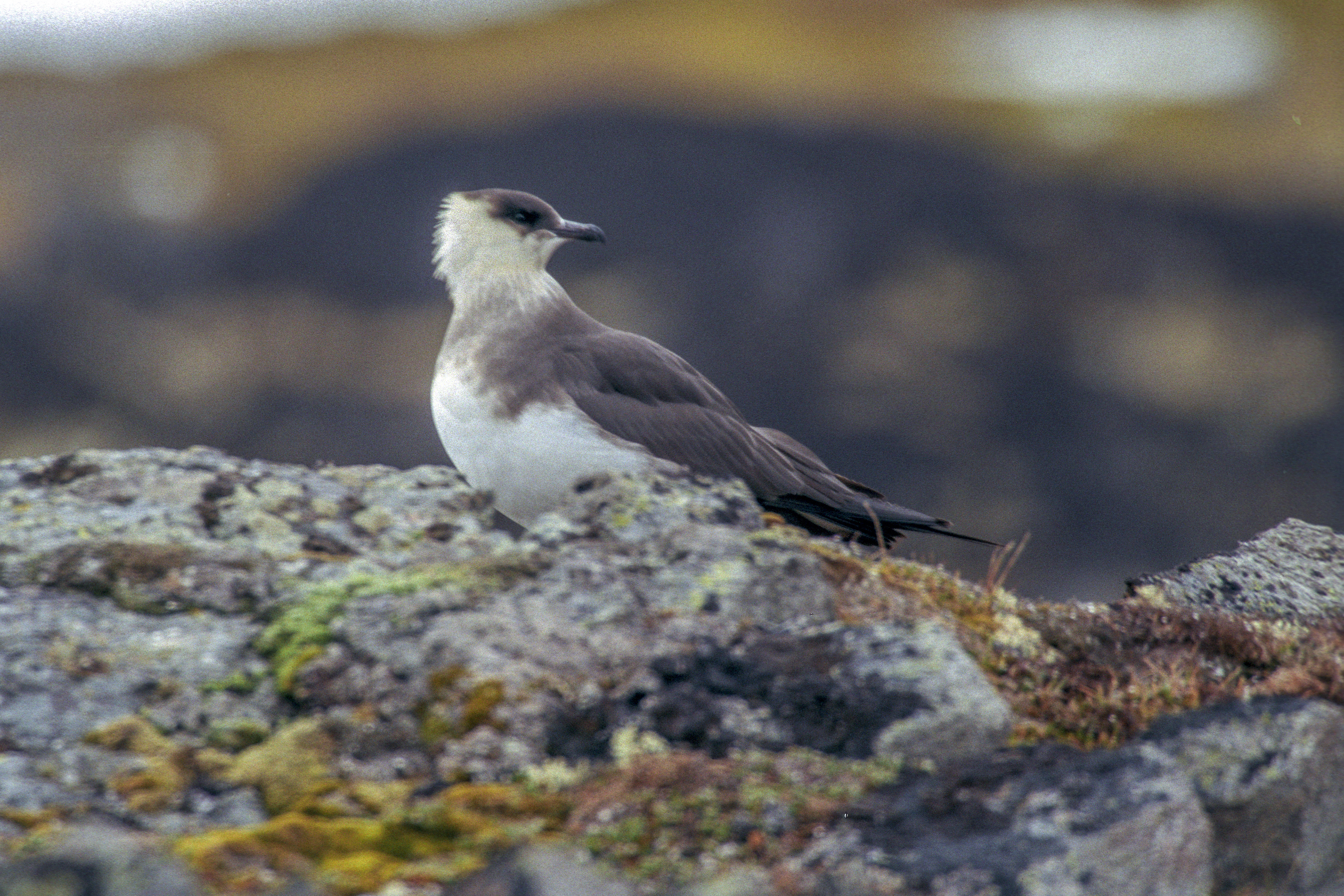 Arctic Skua Stercorarius parasiticus, Spitsbergen